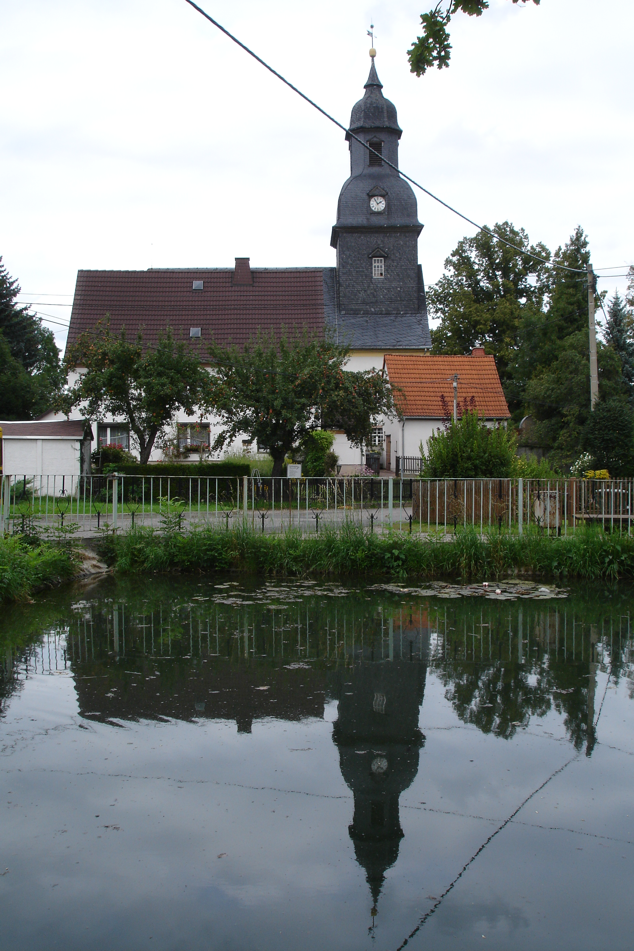 Church in Oberhohenkirchen